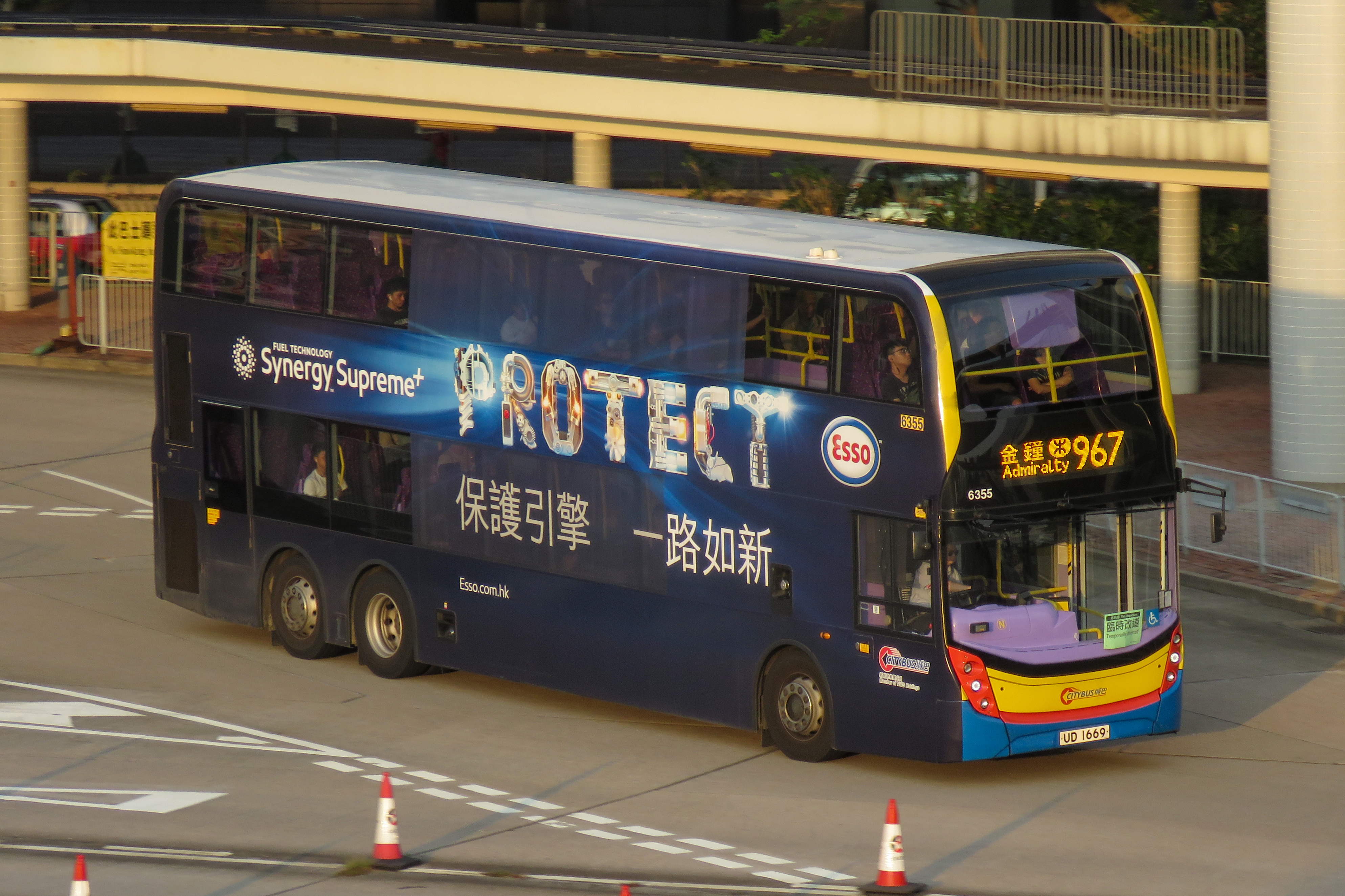 Another Esso.